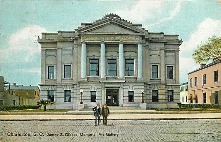 The Gibbes Art Gallery is shown in a postcard dated 1907.